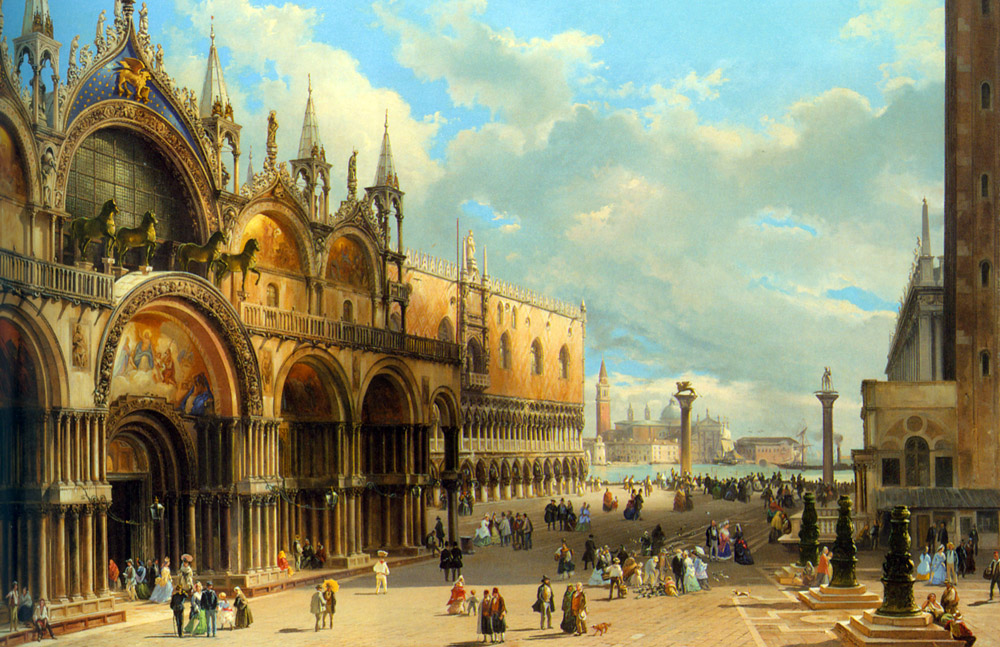 St. Marks and the Doges Palace, Venice